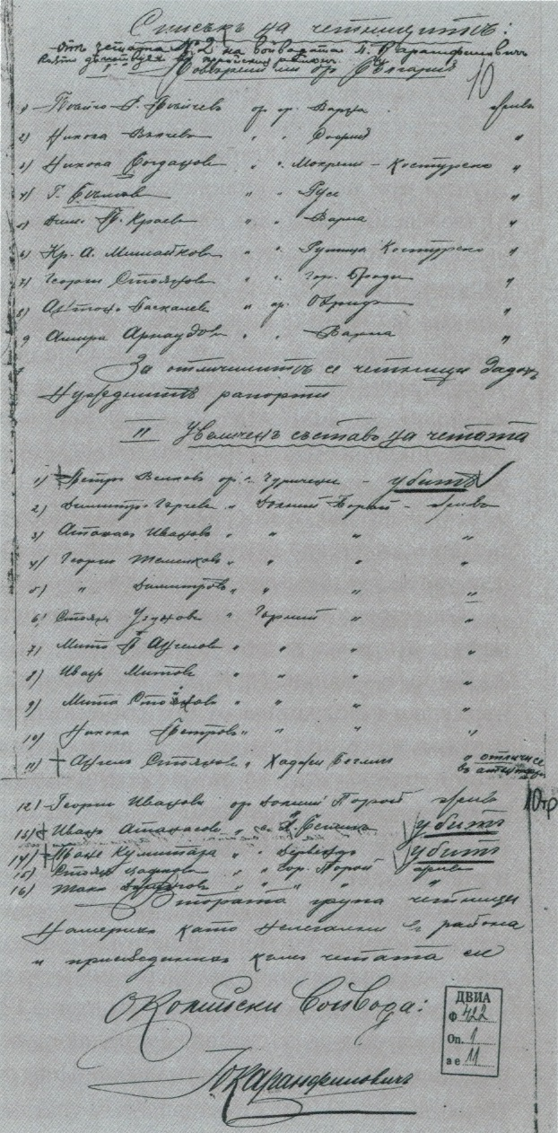 List of Gurilla Squad 2 of the MAVC by Panayot Karamfilovich, 1912